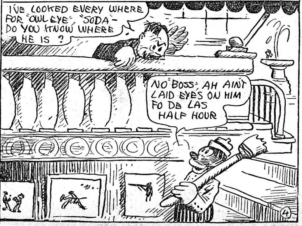 Fourth panel of the December 23, 1922, episode of George Herriman's comic strip Stumble Inn.